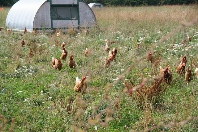 Free range chickens at Maple Farm These chickens are about as happy as they can get.